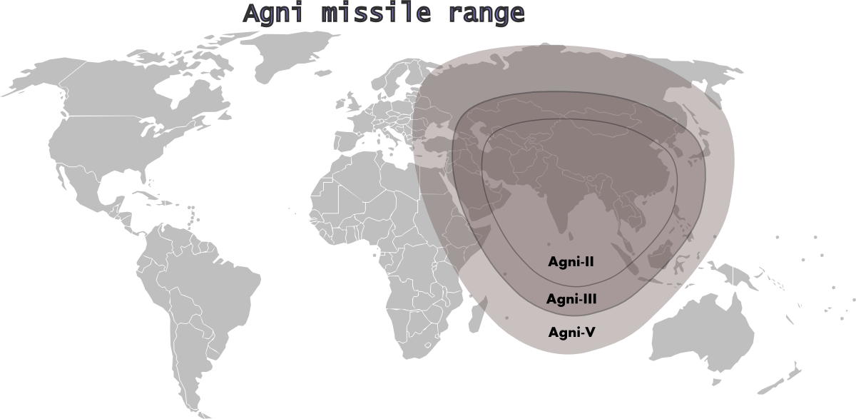 Range map of Agni missiles.